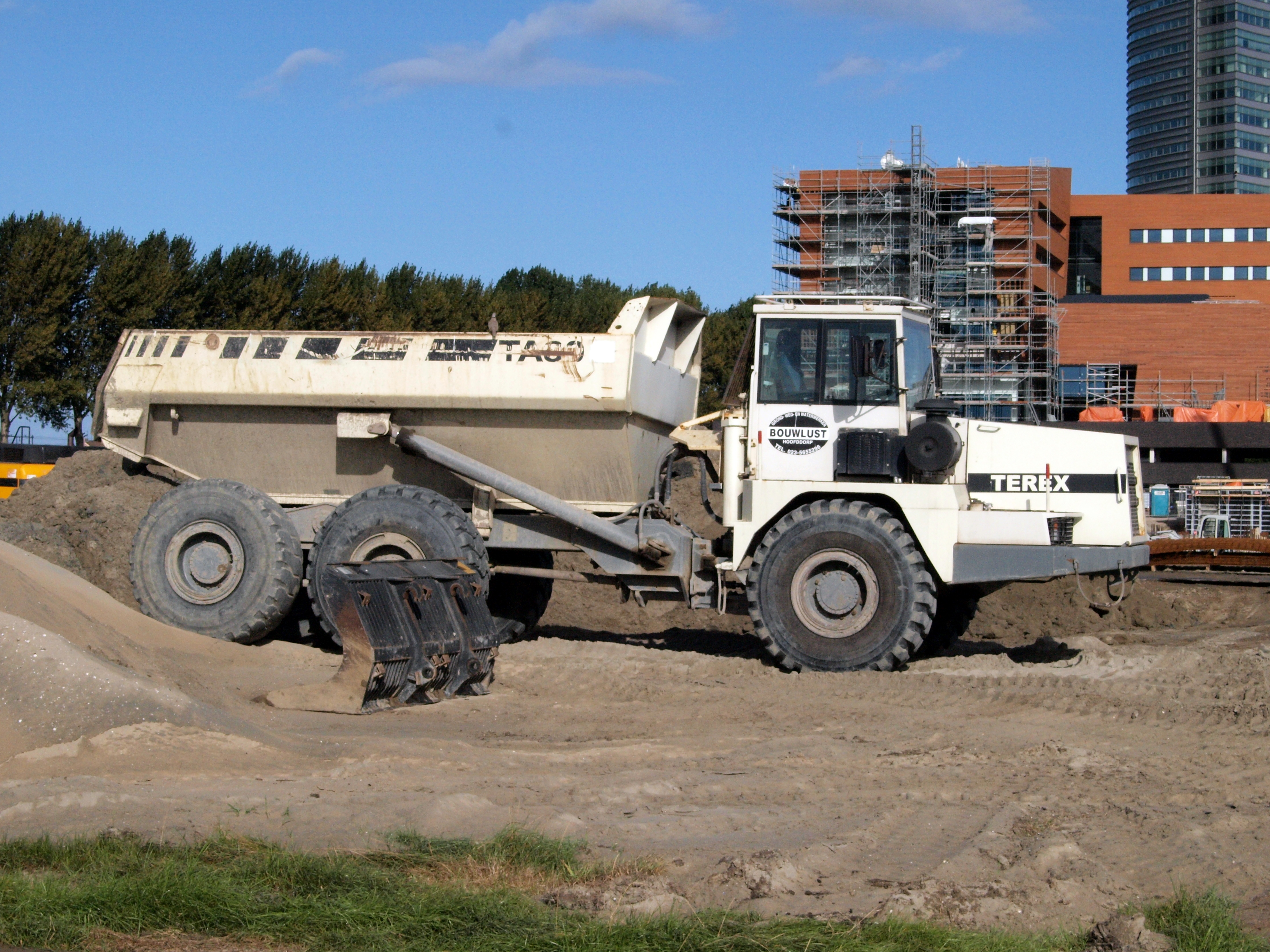 Terex TA30